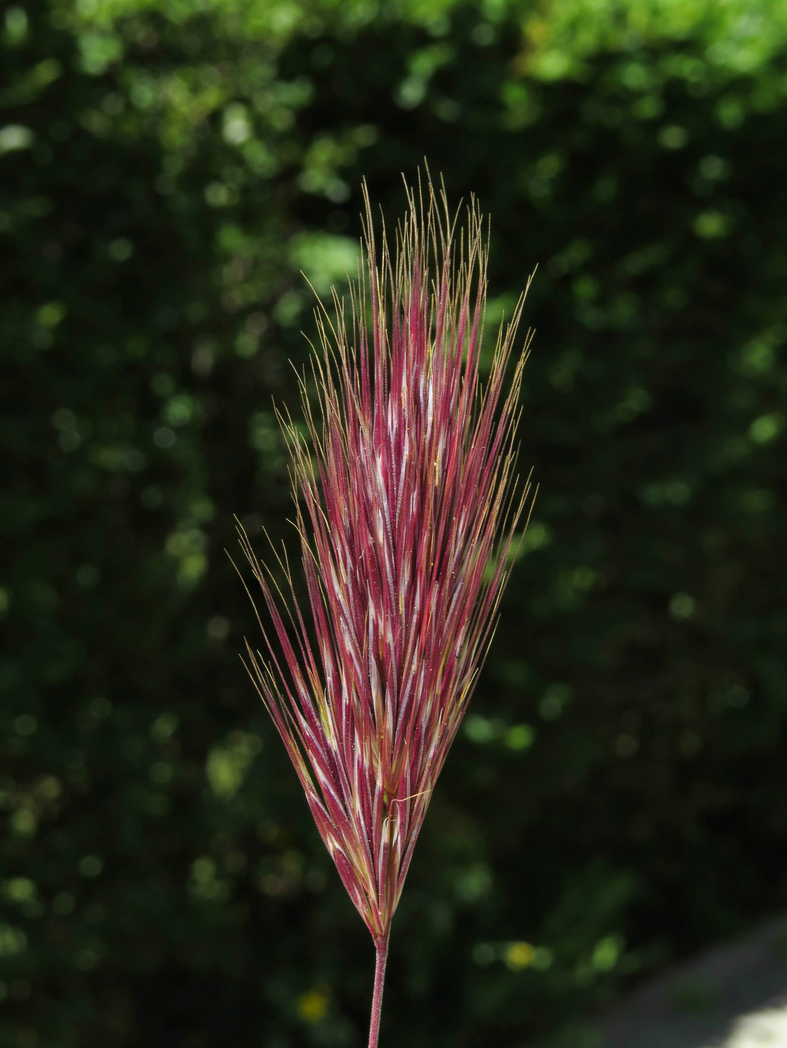 Bromus rubens, Poaceae / Barrio de Moratalaz, Madrid, Spain